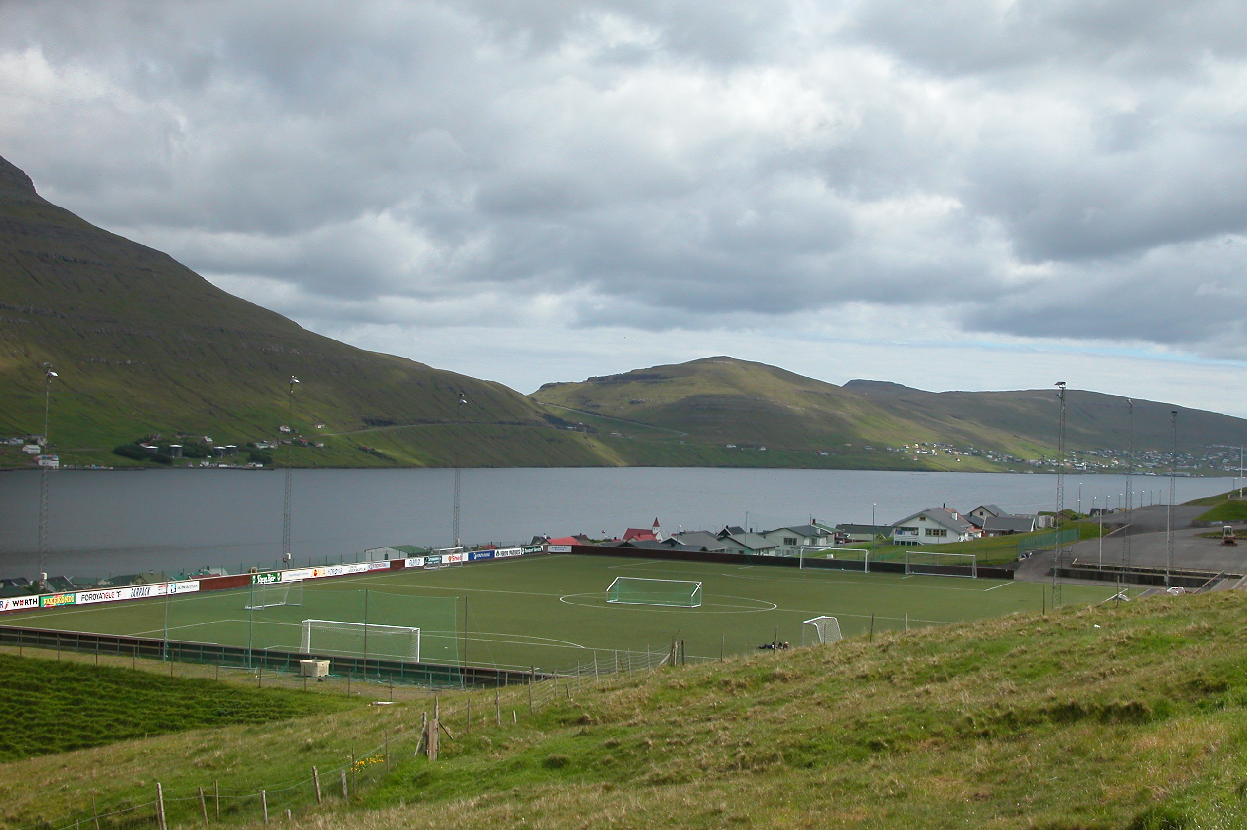 Football field of Skáli, Faroe Islands